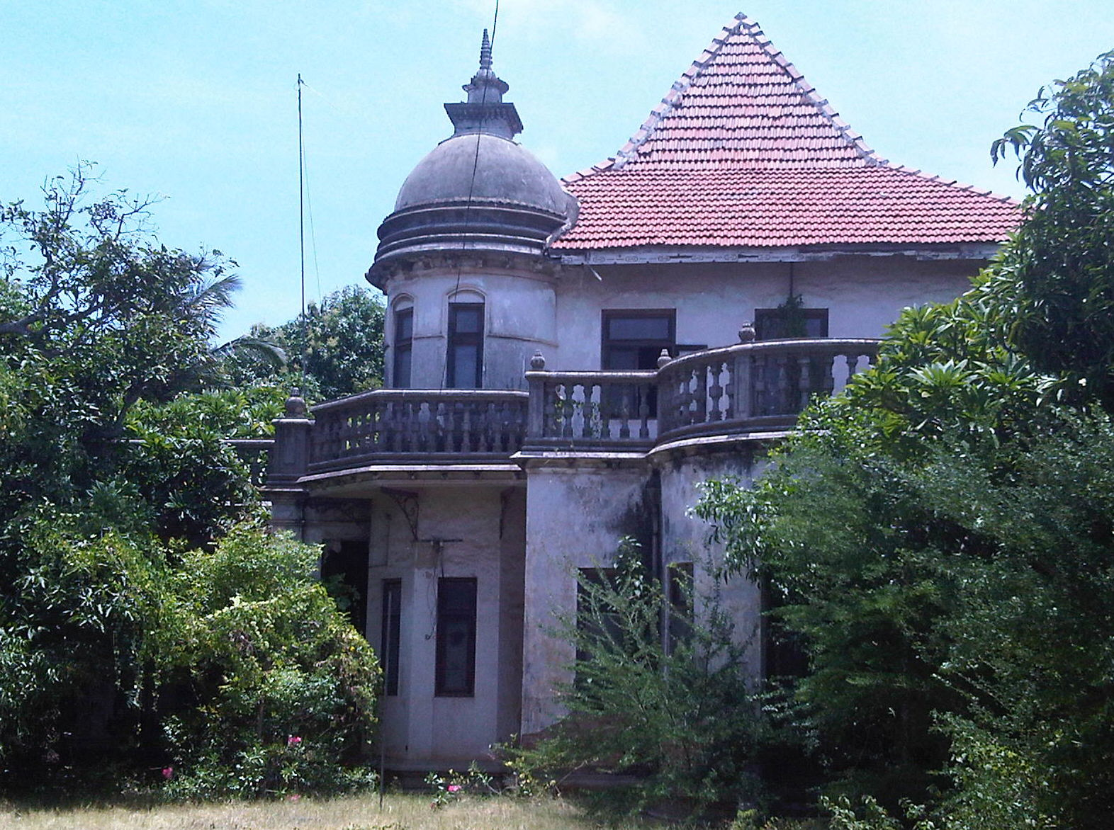 The historic Corea Family home called 'Sigiriya' in Chilaw, Sri Lanka. Maatma Gandhi, his wife Kasturba and entourage stayed here in 1927 during his first and only visit to Ceylon. Gandhi was invited to Chilaw by C.E.Corea and Victor Corea - both brothers were freedom fighters and national heroes of Sri Lanka.